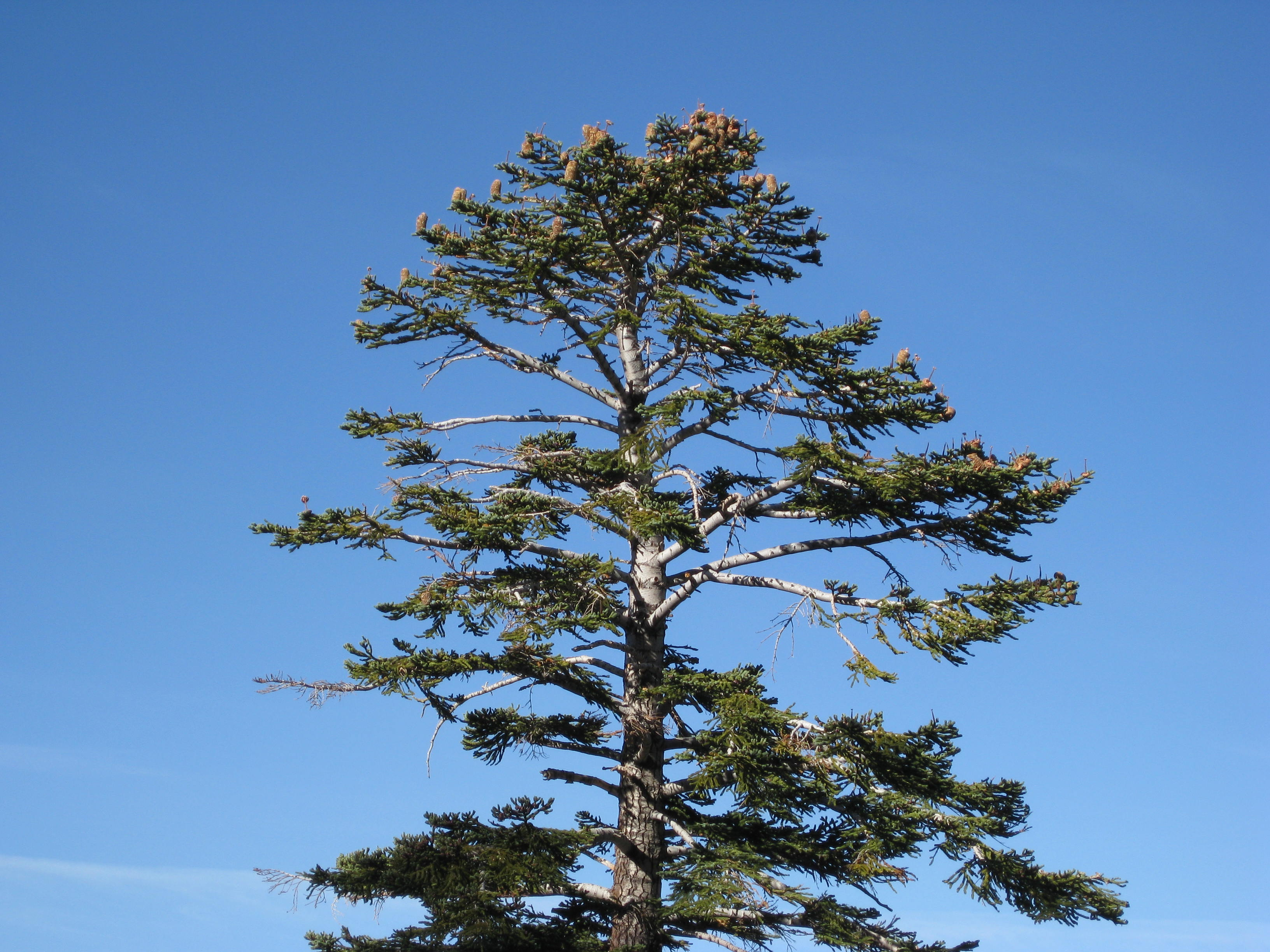 Abies magnifica upper crown of tree, between Monument Pass and Star Lake at about 2700 meters, Tahoe Rim Trail, California